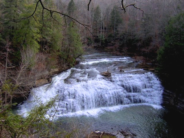 Middle Falls at Burgess Falls State Park near Cookeville, Tennessee, located in the Southeastern United States. This view is from an observation deck situated near the top of the bluffs along the south bank of the river.